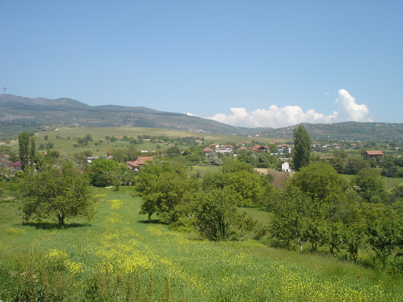 Karshijak region, Macedonia